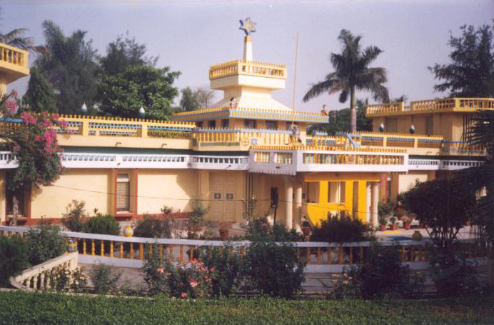 Maa Mandir